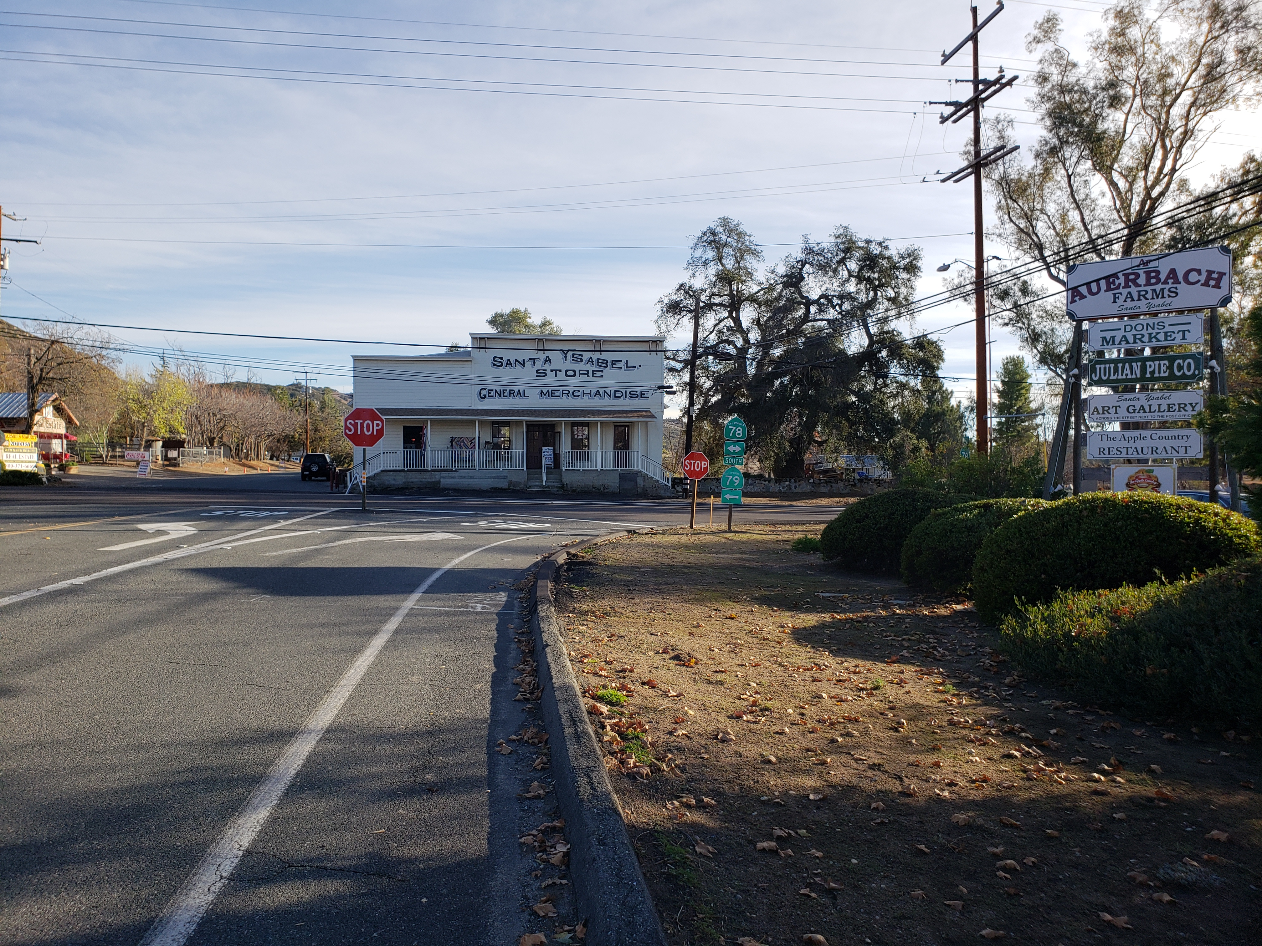 The intersection of California State Route 78 and California State Route 79, with a historic general store in the background.